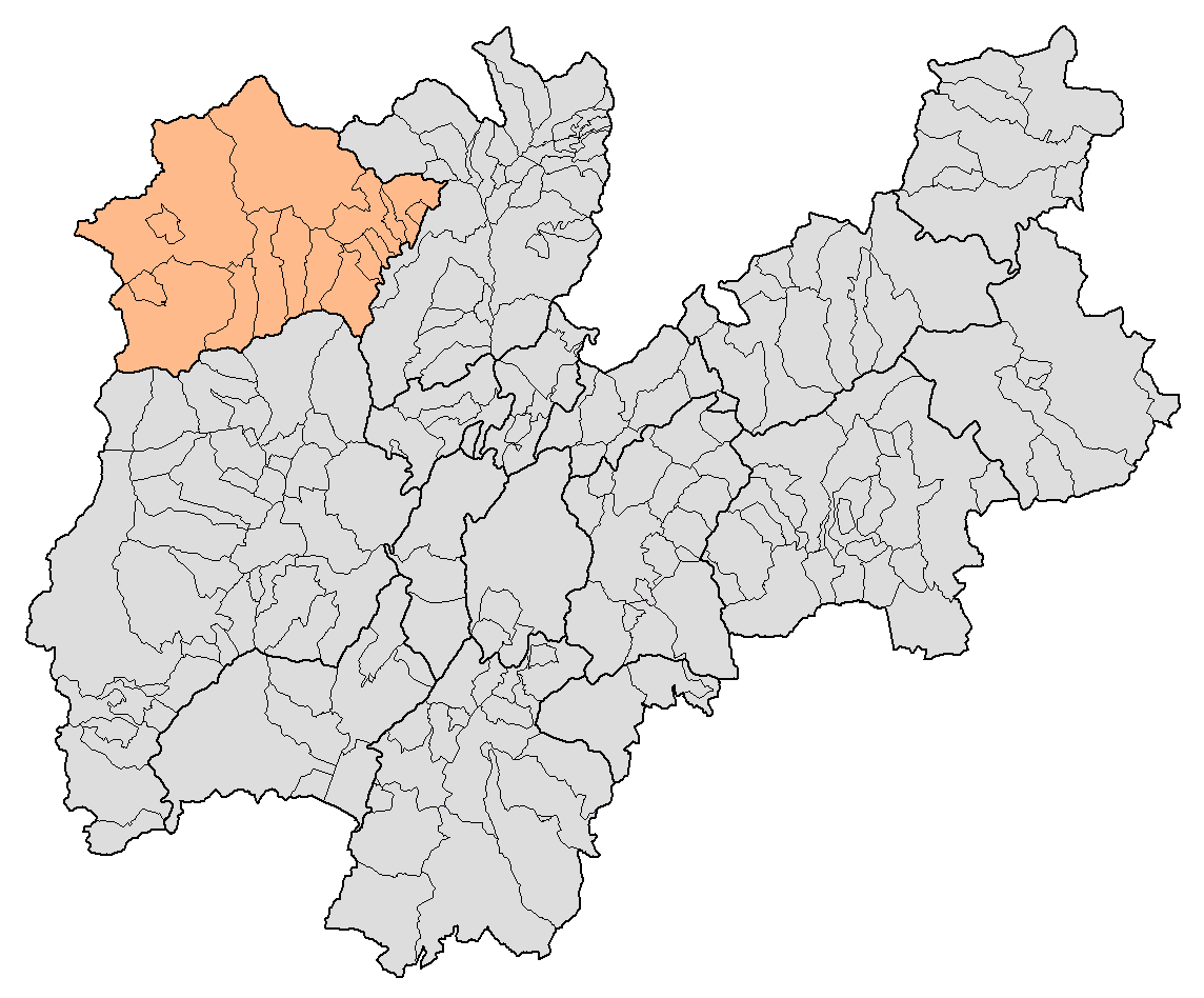 Location map of "Comunità della Valle di Sole" (7)